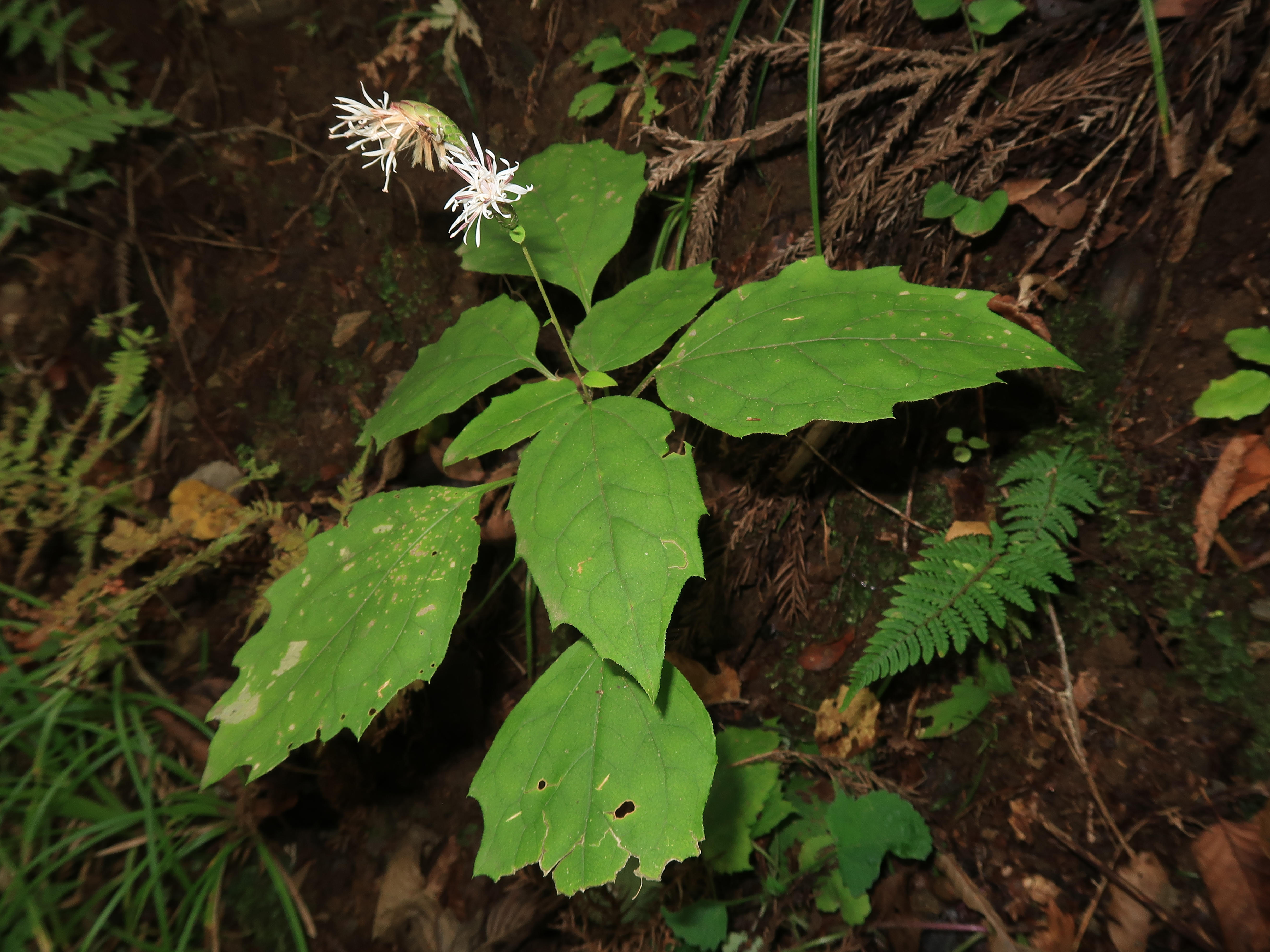 Pertya robusta, Hama-dori area, Fukushima pref., Japan